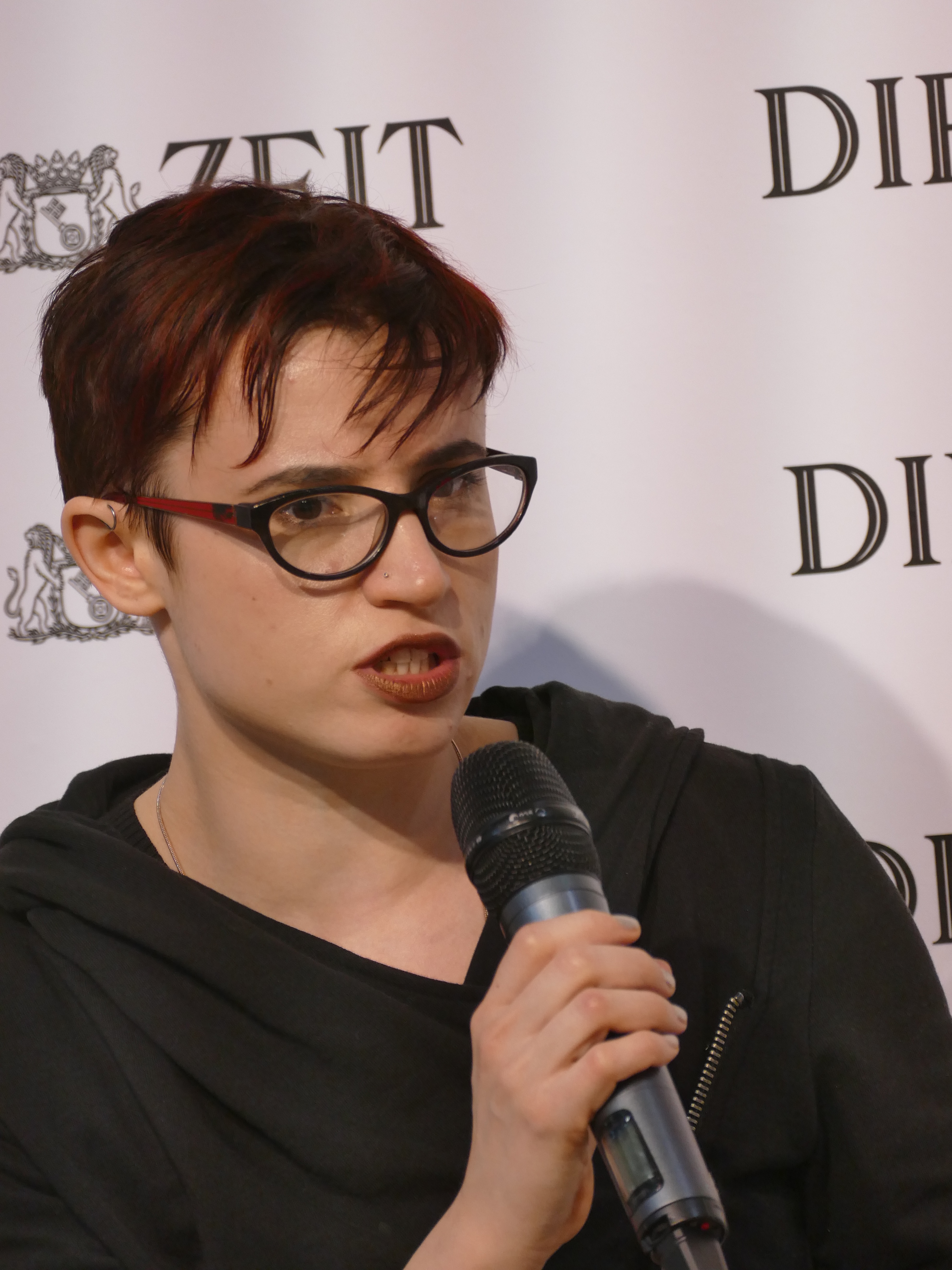 The English journalist an writer Laurie Penny at Leipzig Bookfair 2016